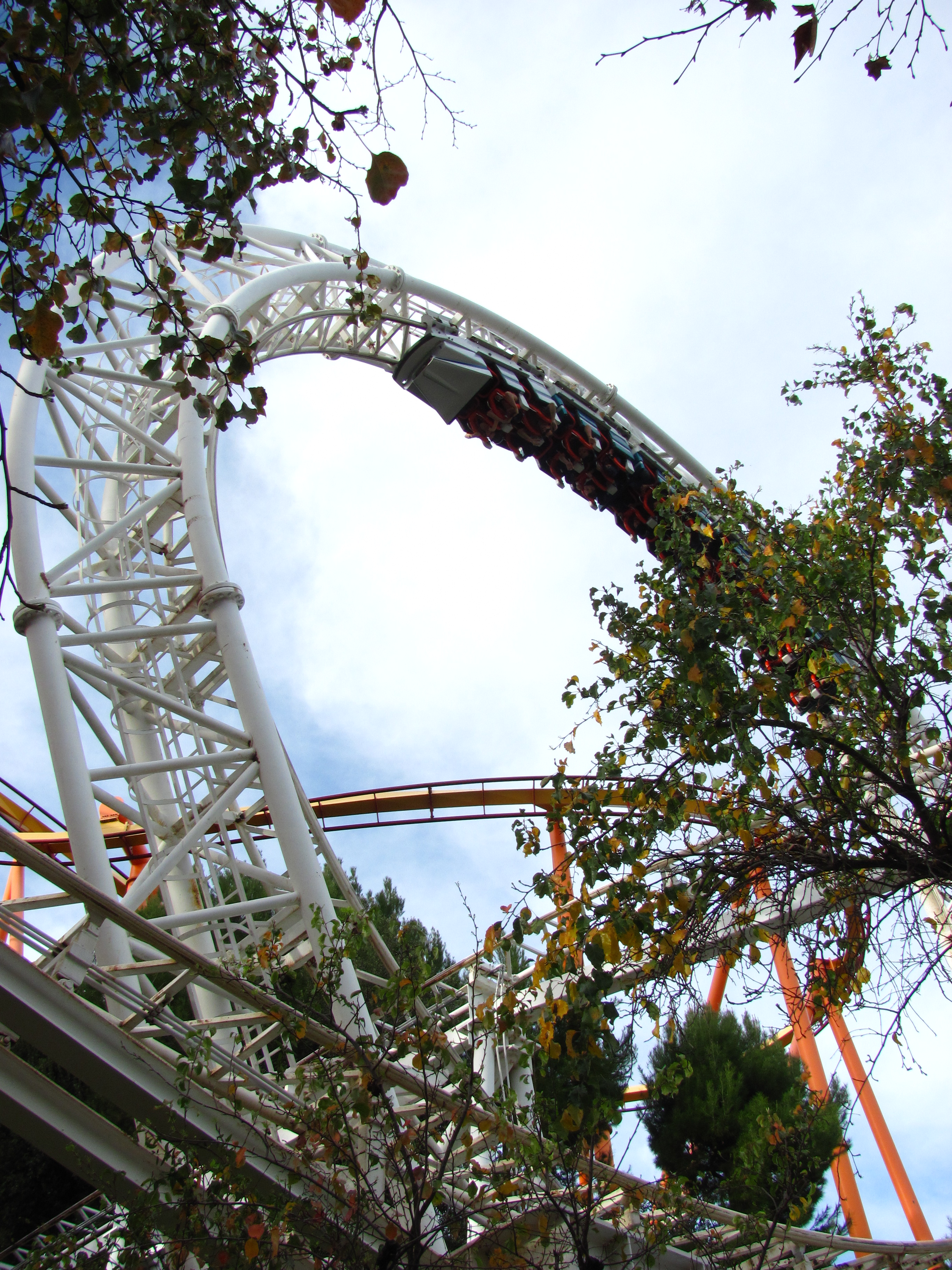 Revolution at Six Flags Magic Mountain